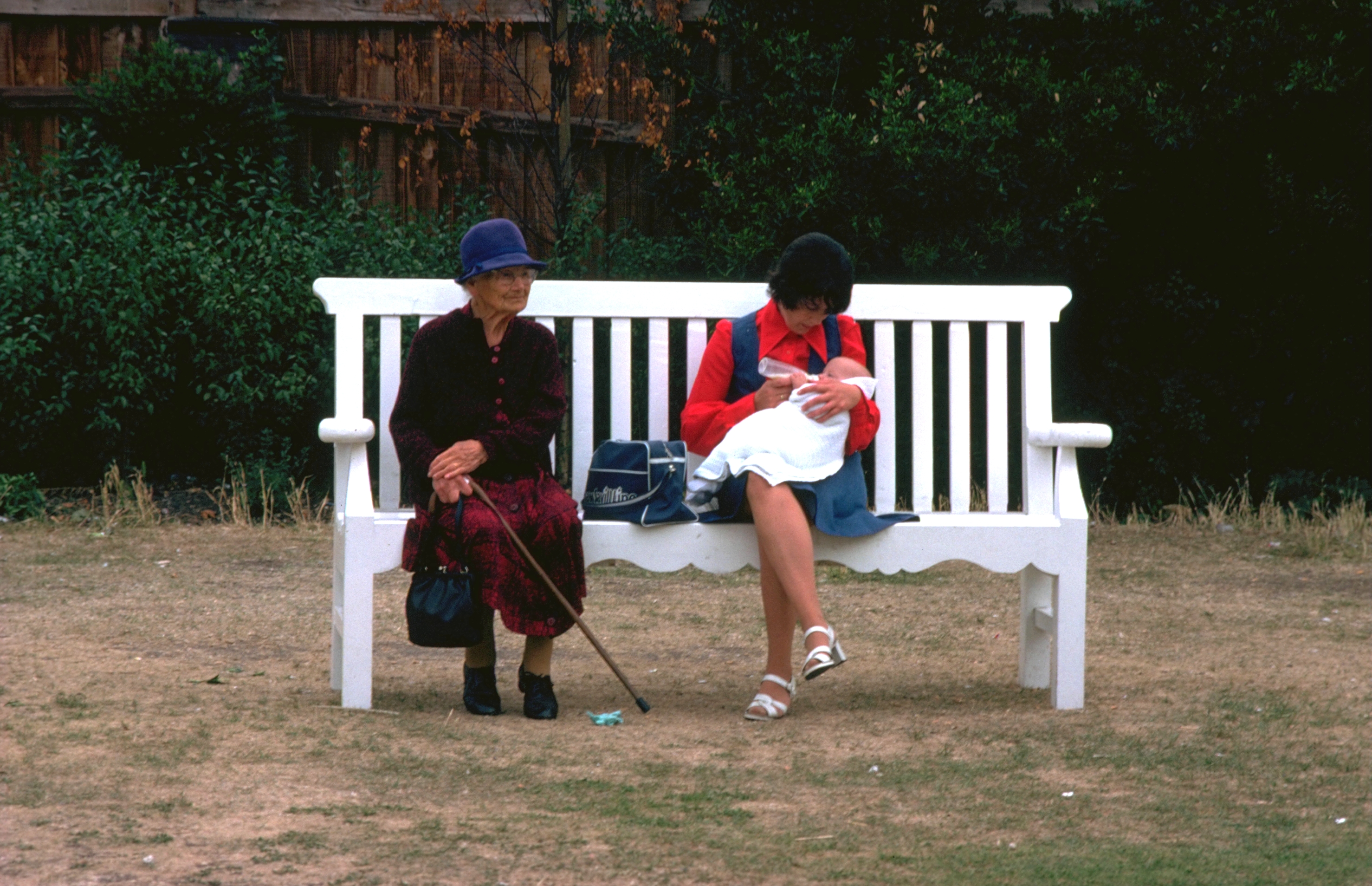 Three generations on a bench, seen in England